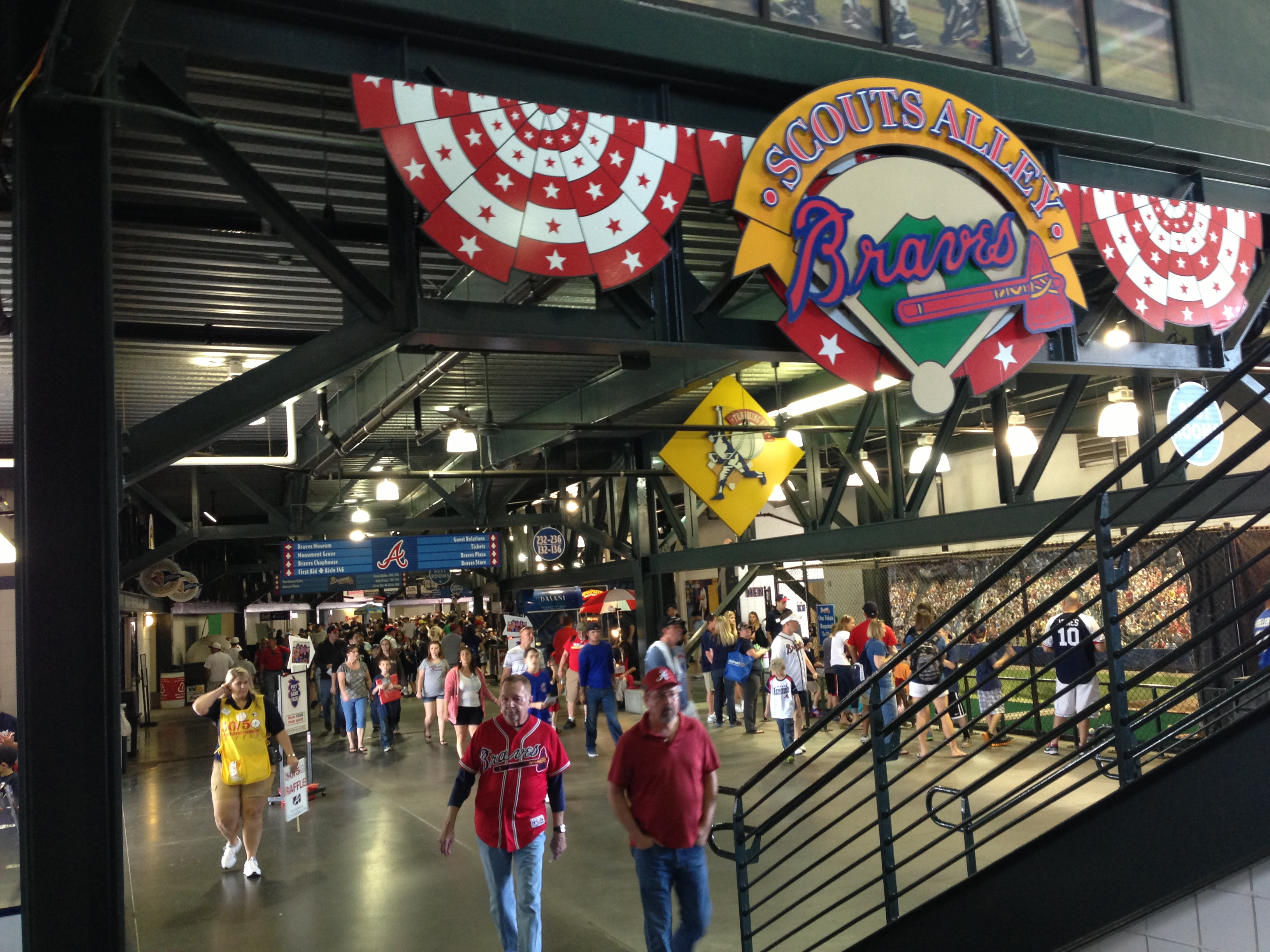 Entrance to Scouts Alley at Turner Field in Atlanta, Georgia